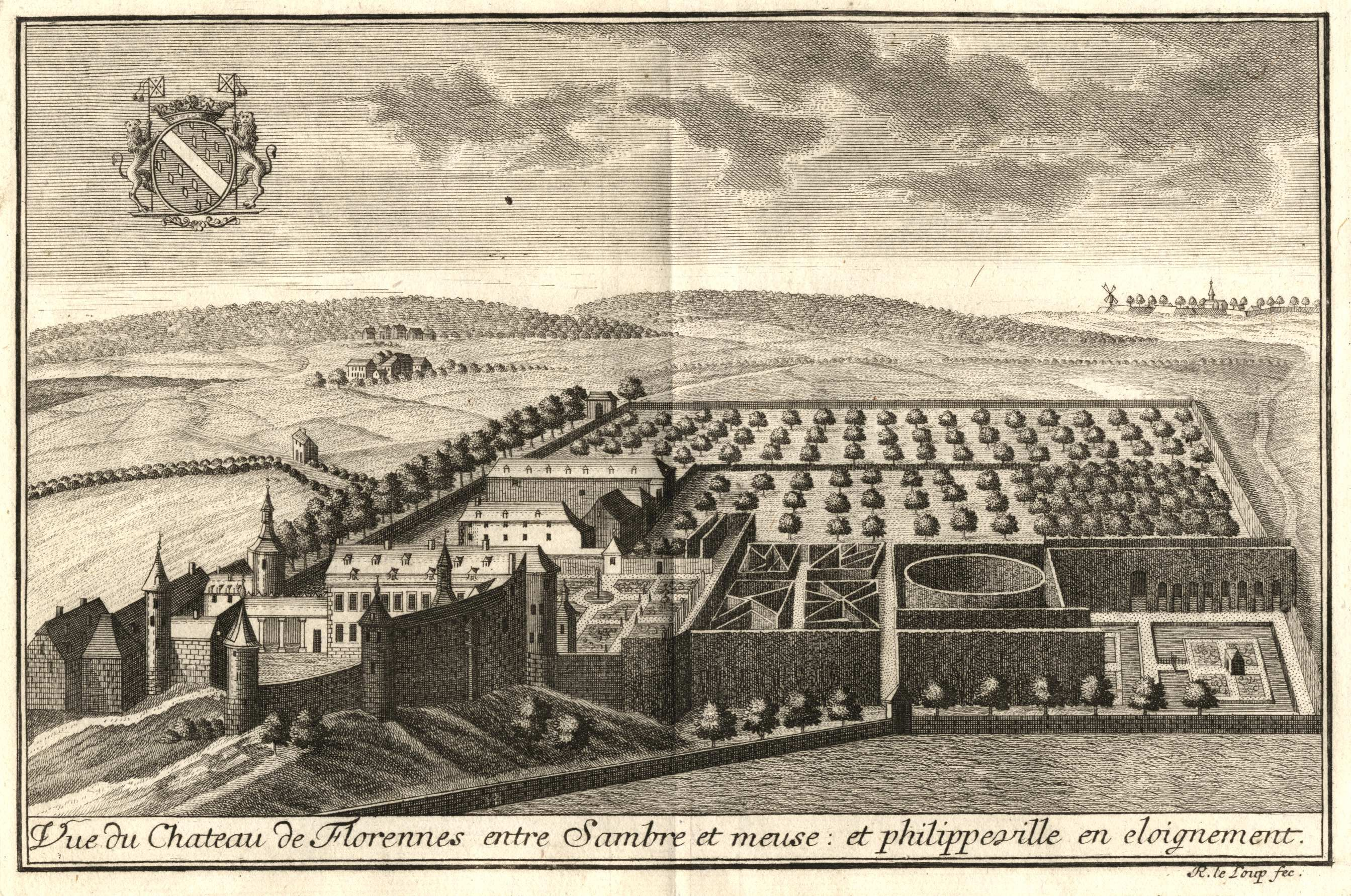 Chateau de Florennes, Belgium, engraved by Remacle Le Loup, from Délices du Pays de Liège, Saumery (1738-1744)